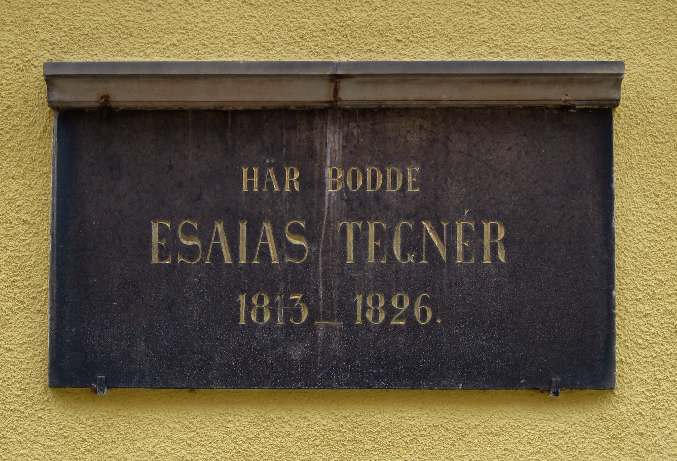 Commemorative plaque at Tegnérmuseet in Lund, Sweden (see File:Tegnérmuseet, Lund.JPG for further information).